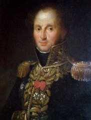 Portrait du général Gabriel Barbou des Courières